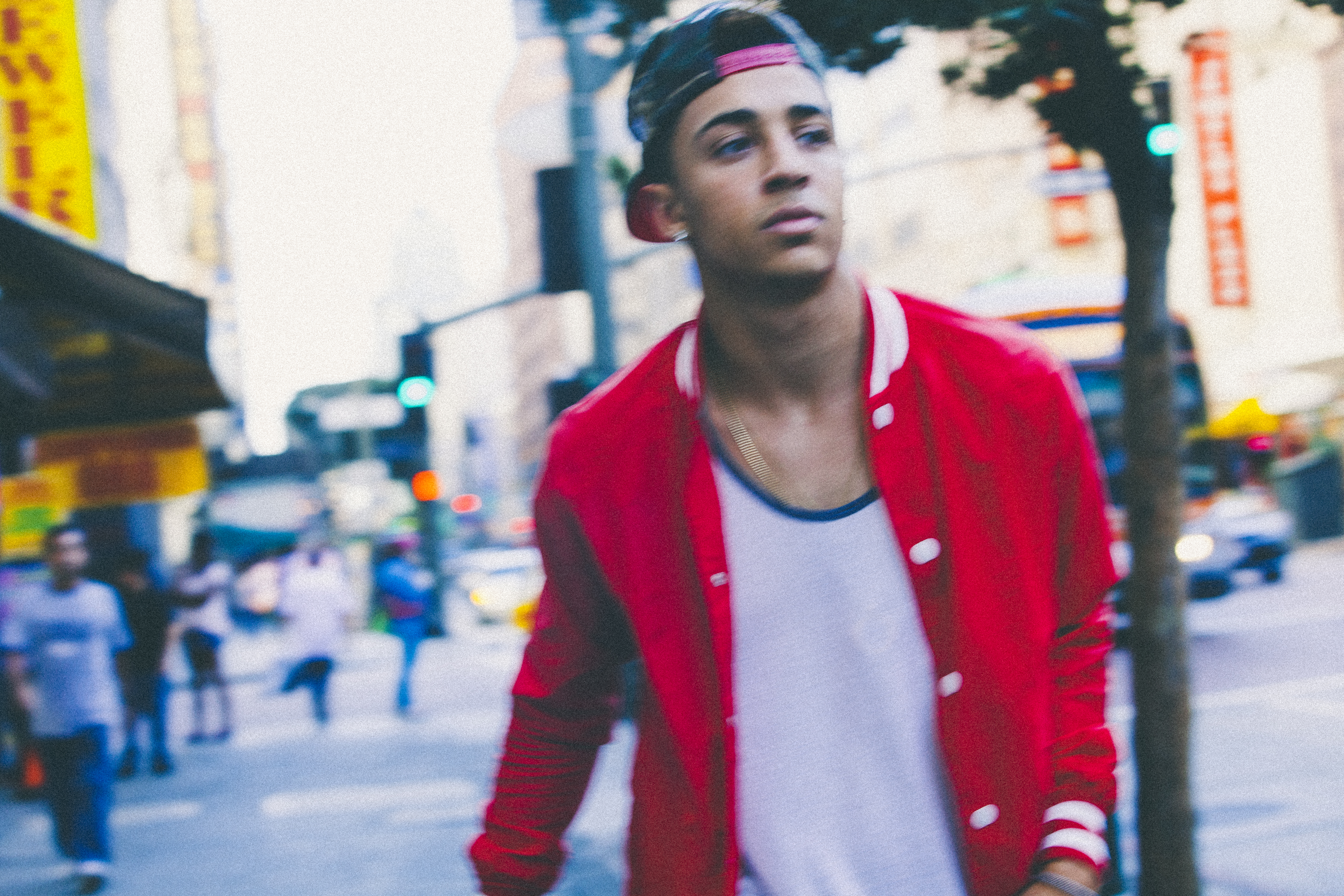 Luke Christopher RCA Records